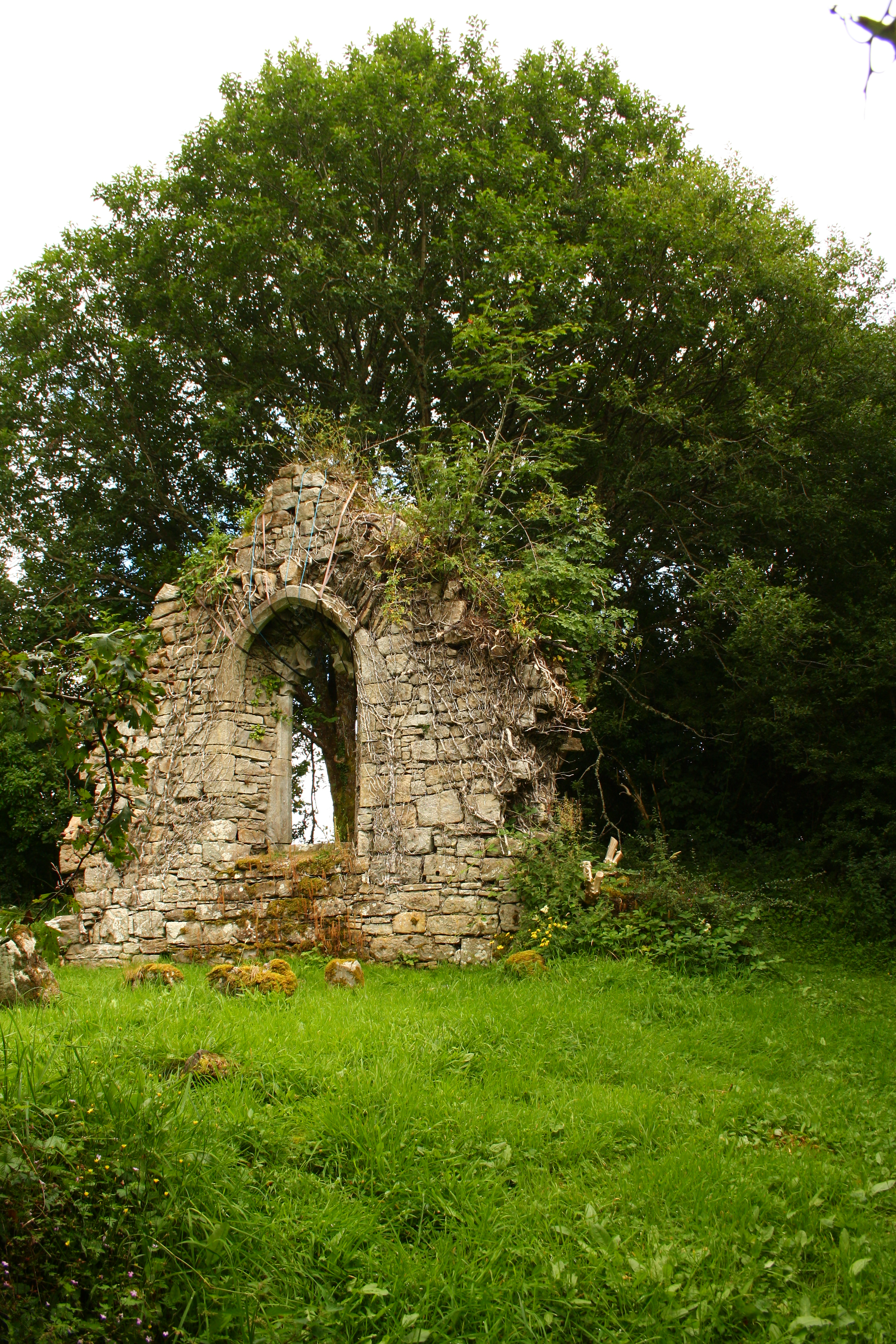 Church